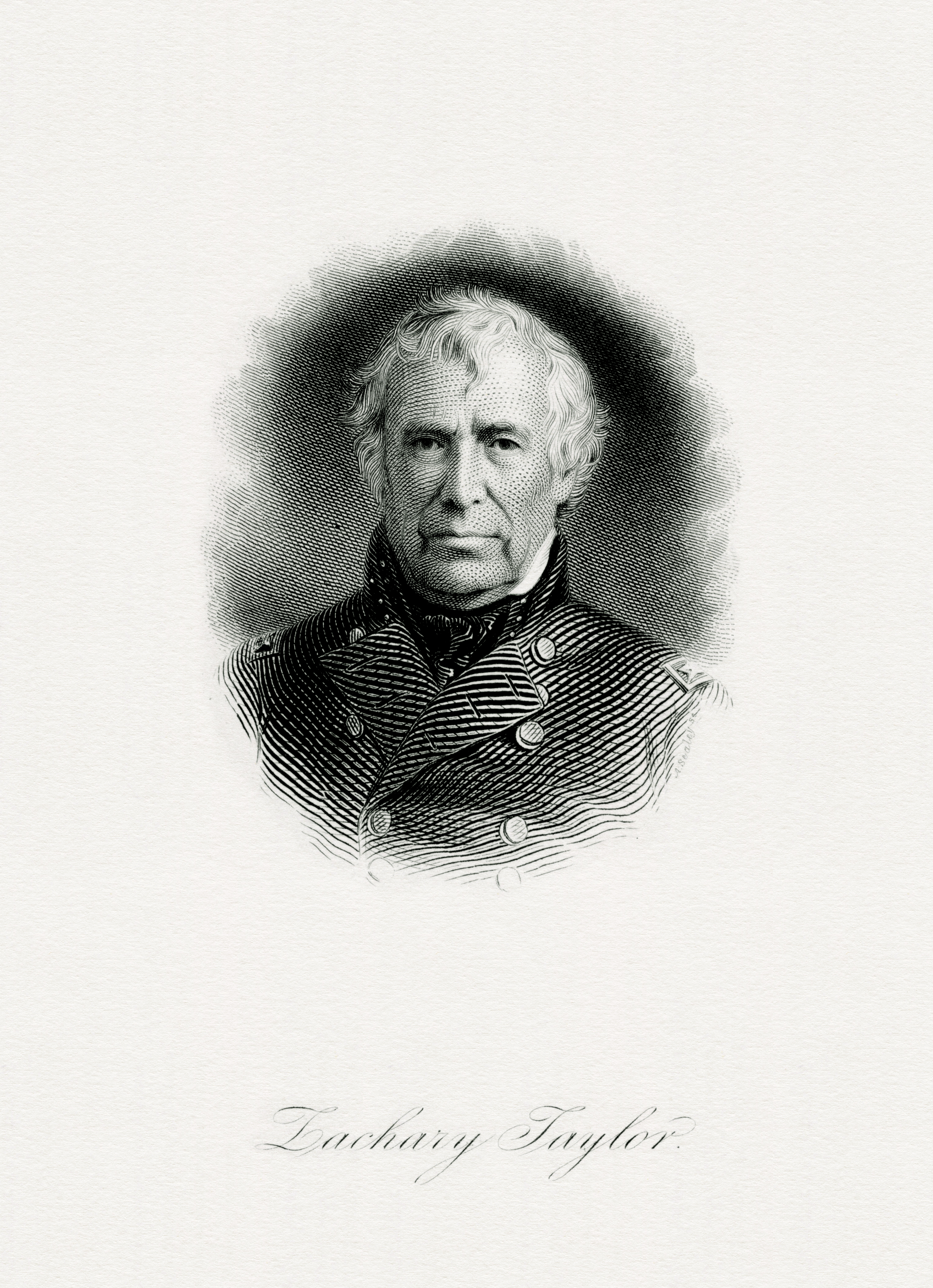 Engraved BEP portrait of U.S. President Zachary Taylor